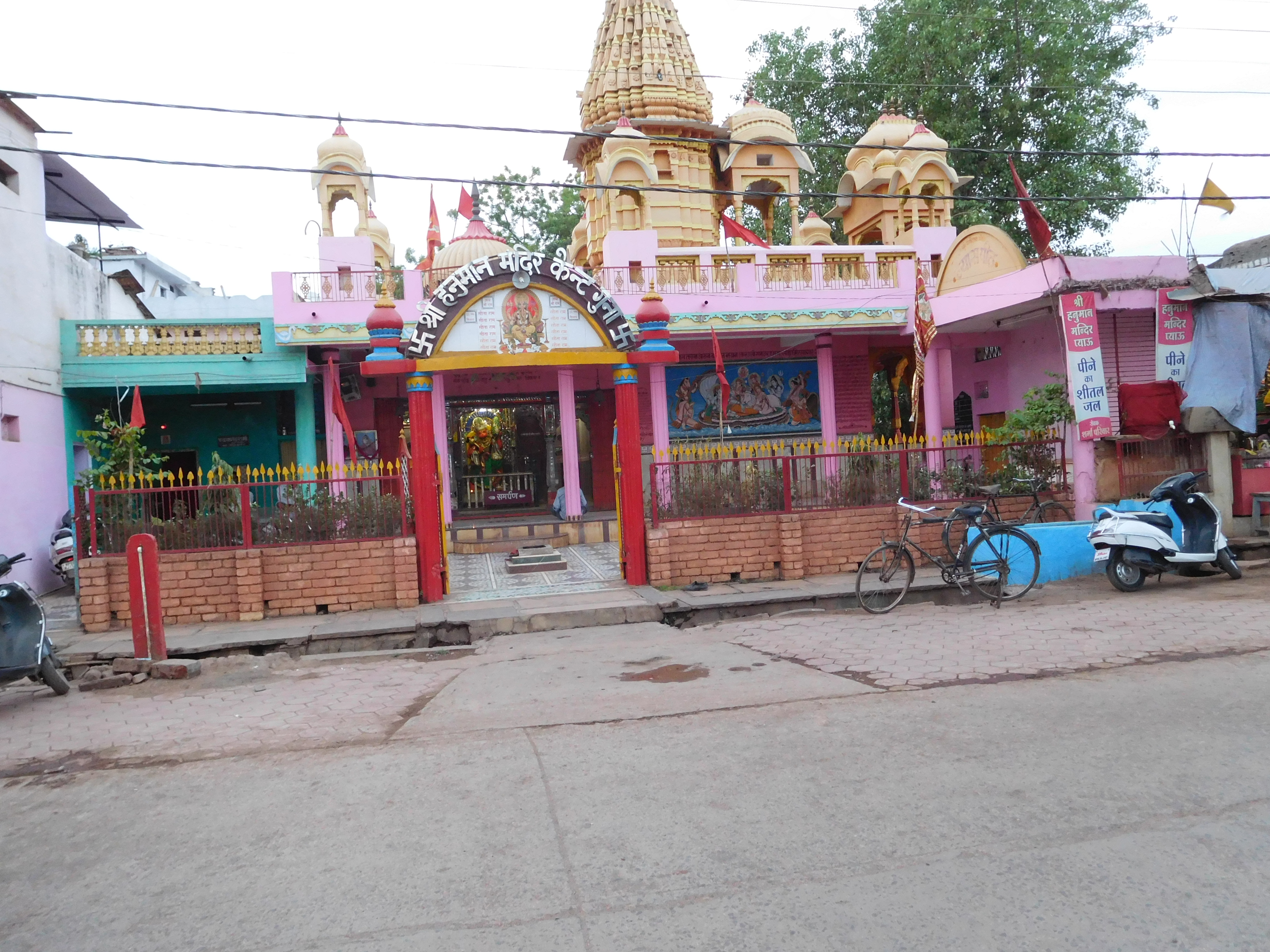 Hanuman Mandir ,Cantt Guna,Madhya Pradesh,India.